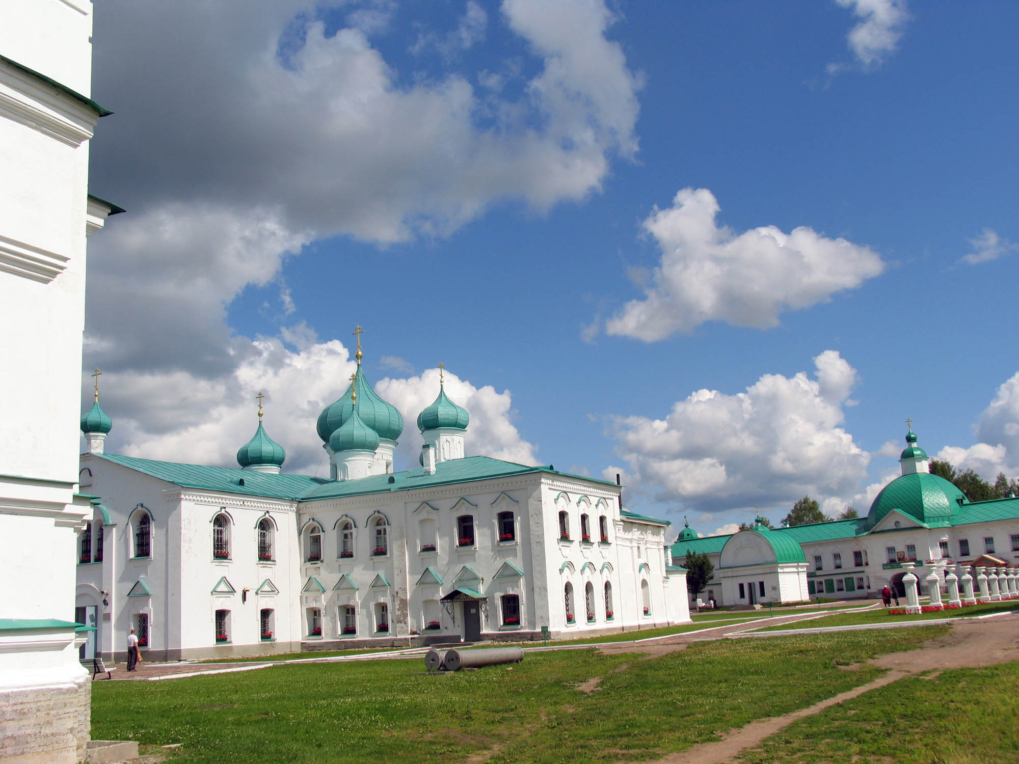 Alexander-Svirsky Monastery, Russia